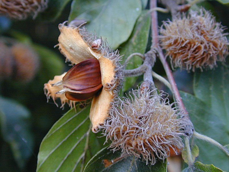 Fruit of beech (Fagus sylvatica)